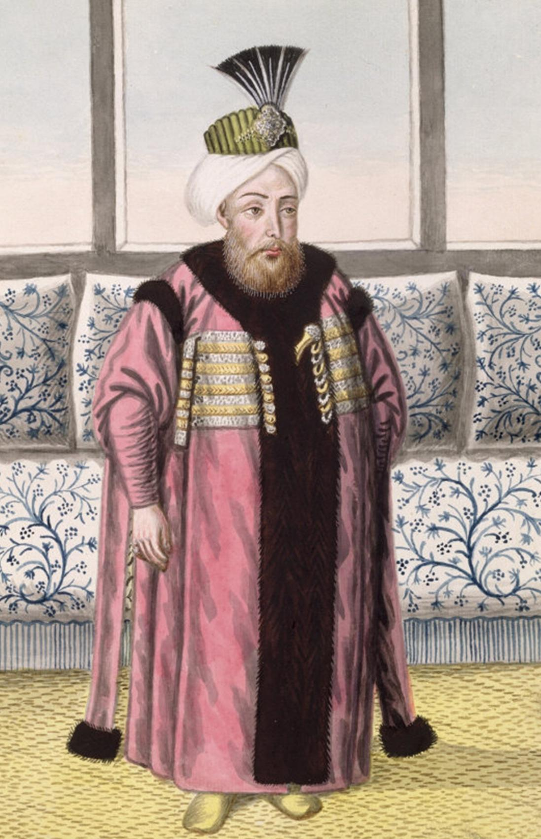 Portrait of Mustafa II, Sultan of the Ottoman Empire (1695-1703). The portrait has been printed using the Giclée process.